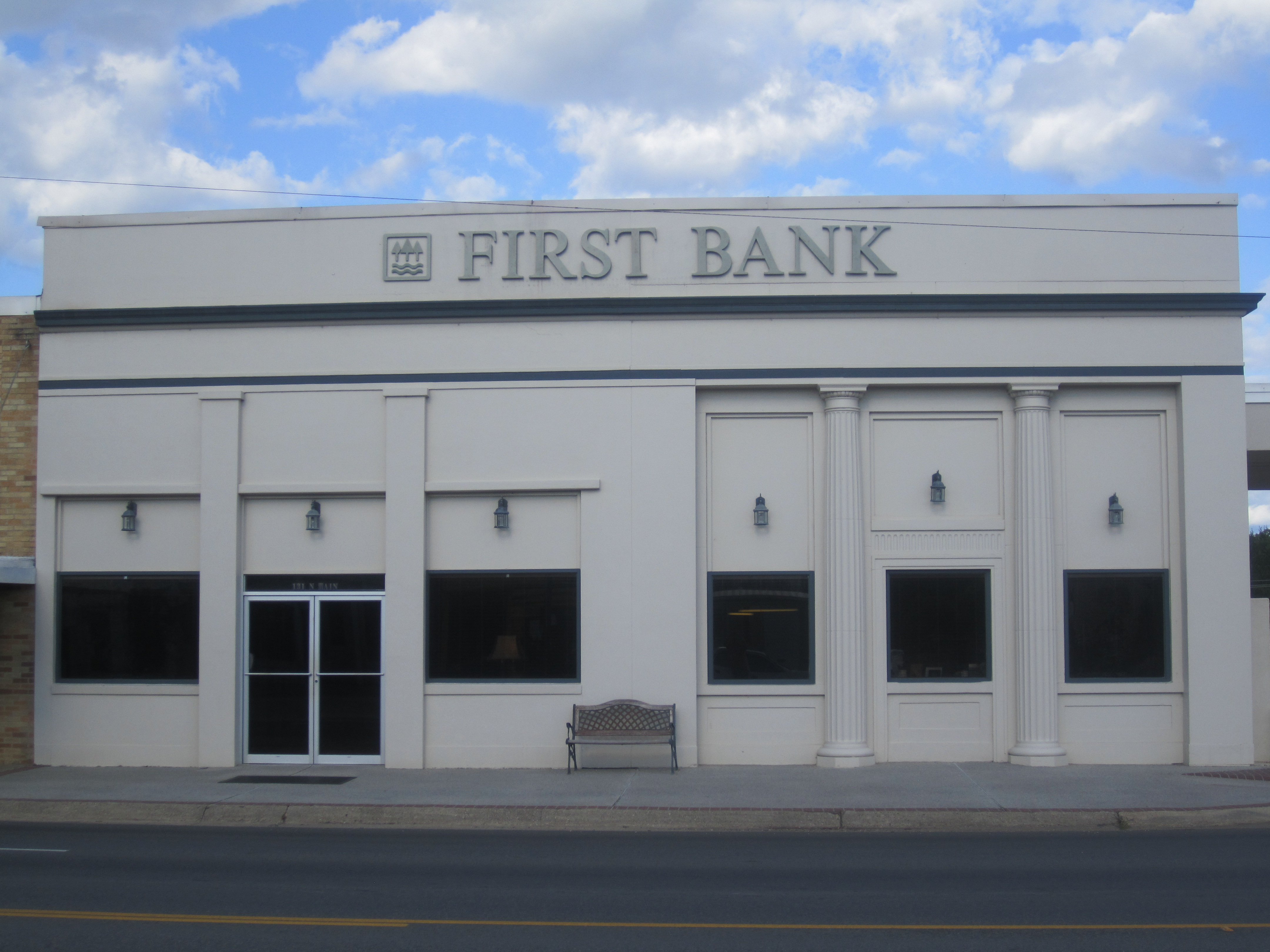 I took photo with Canon camera of First Bank of South Arkansas in Junction City, AR.